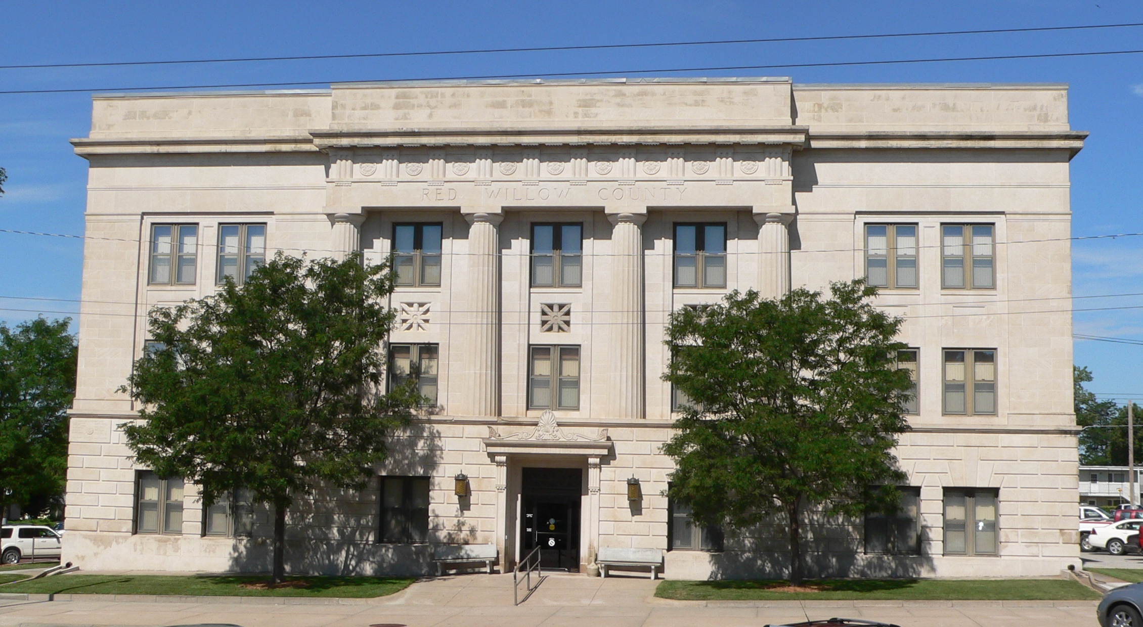 Red Willow County Courthouse in McCook, Nebraska; seen from the east. The Classical Revival building was constructed in 1926. It is listed in the National Register of Historic Places.